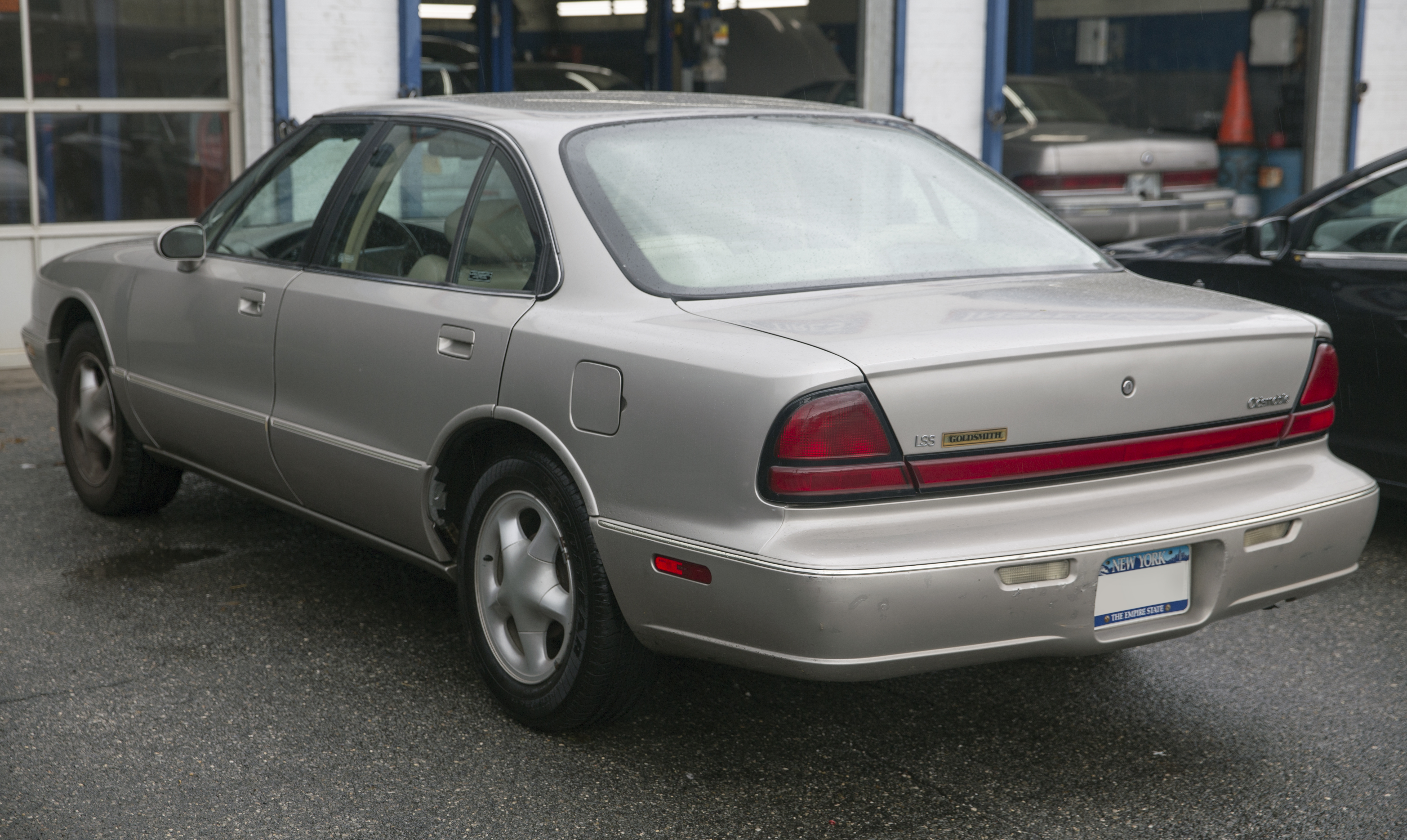 1996 Oldsmobile LSS; still with the original owner. She is approaching ninety and refuses to buy another car as she is unable to "see over the dashboard in new cars." Not supercharged, sadly...